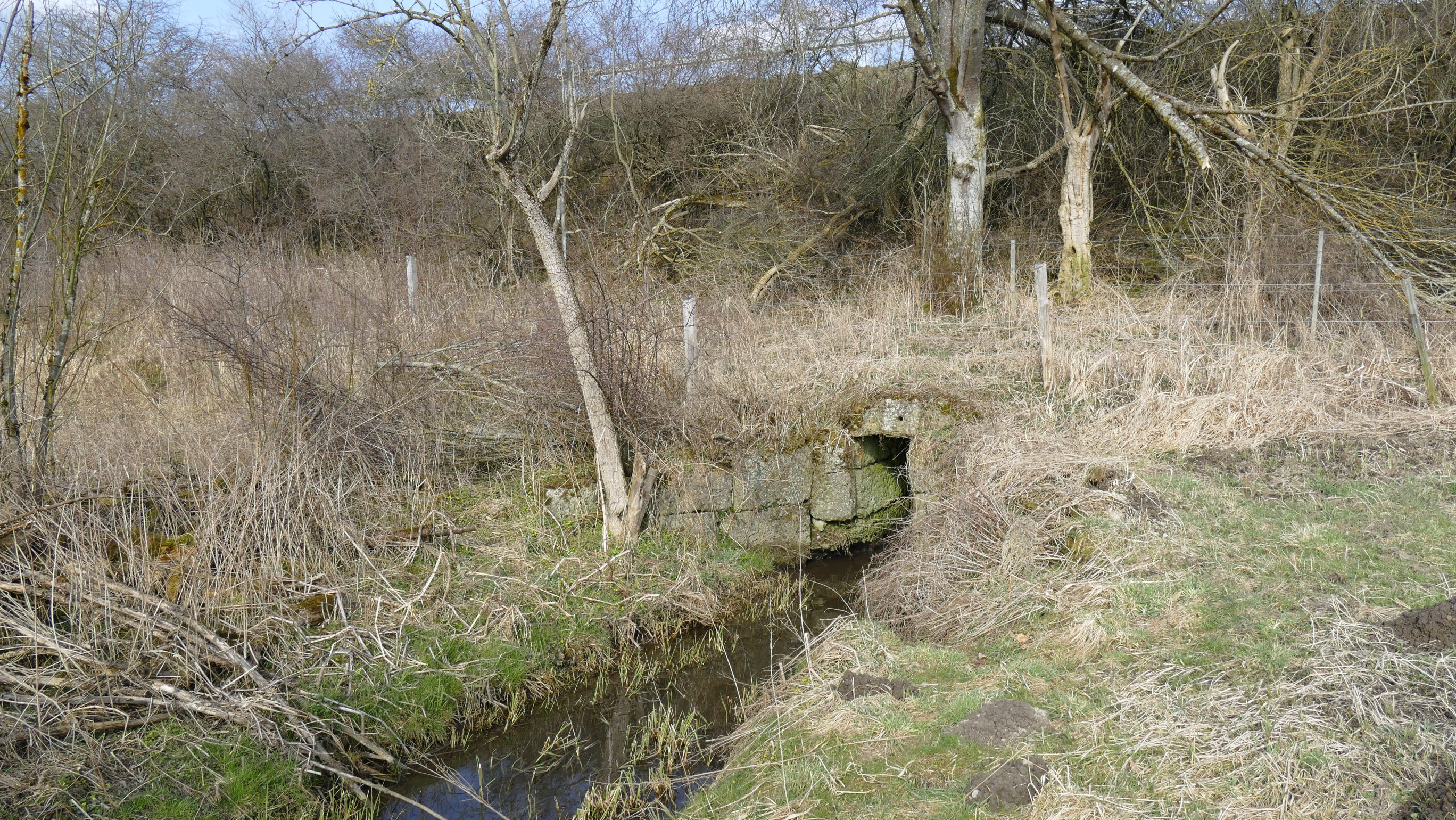 Dewatering tunnel north of Eisendorf The 100m long tunnel was build 1829 to dewater a lake and is still in use. The dewatered area has become farmland.